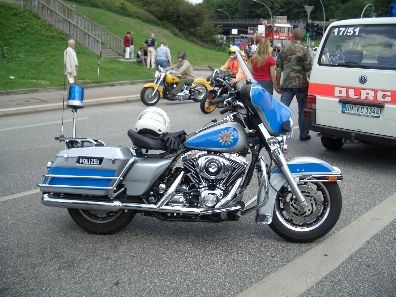 Harley, Hamburg police, Germany.